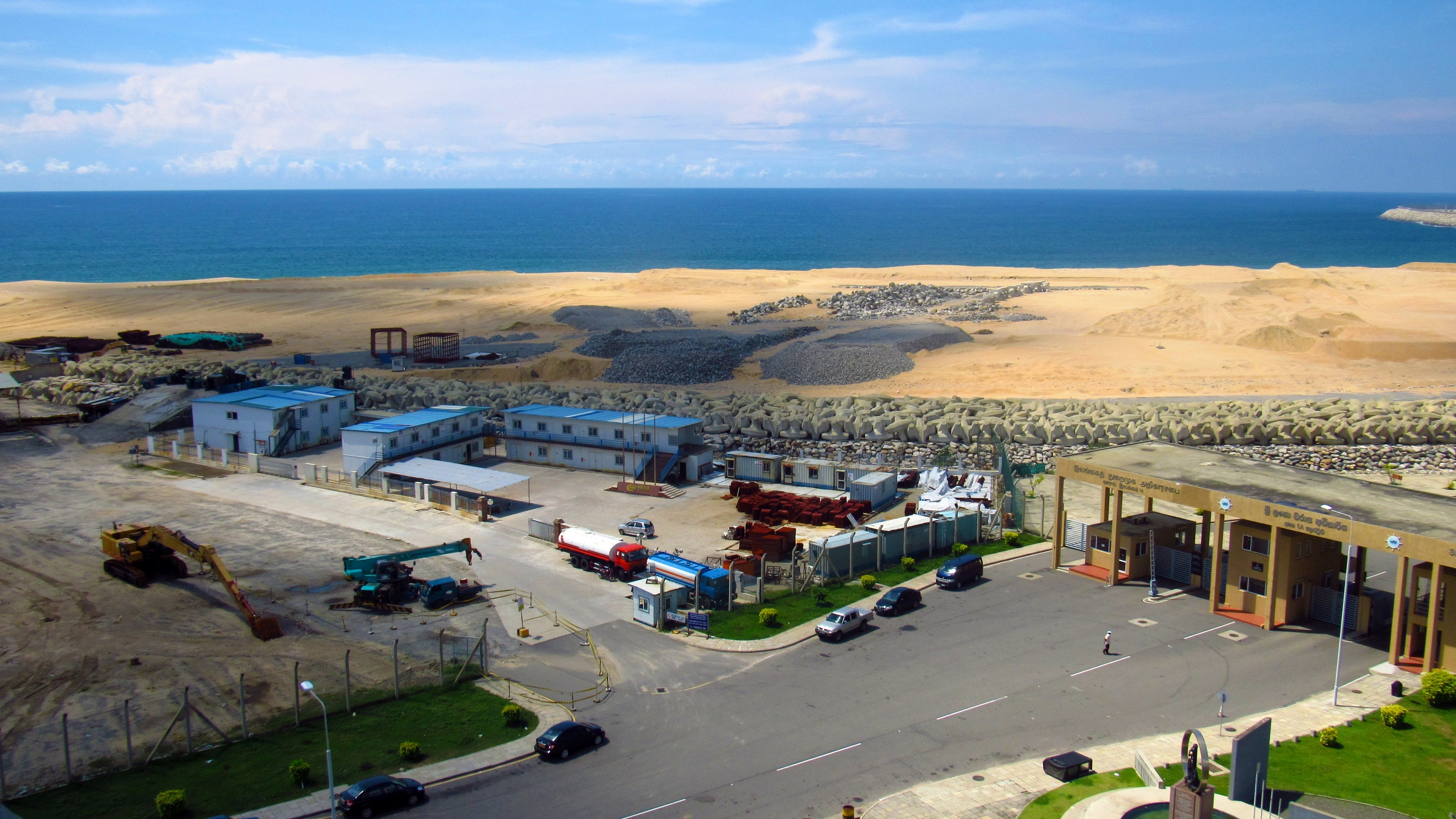 Land reclamation of Colombo Port City. Colombo Harbour, Sri Lanka.